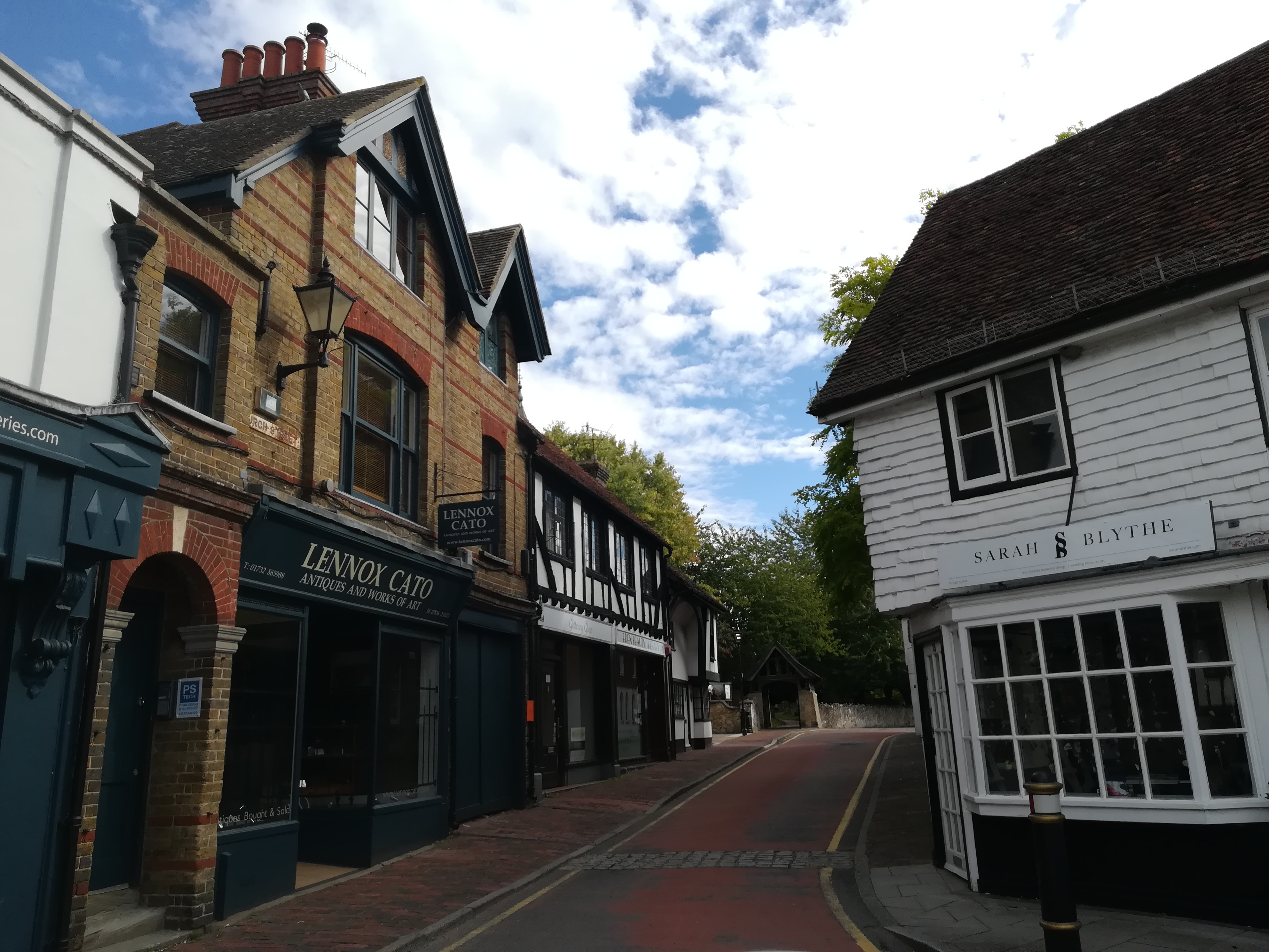 A photograph of the old town of edenbridge taken in 2018